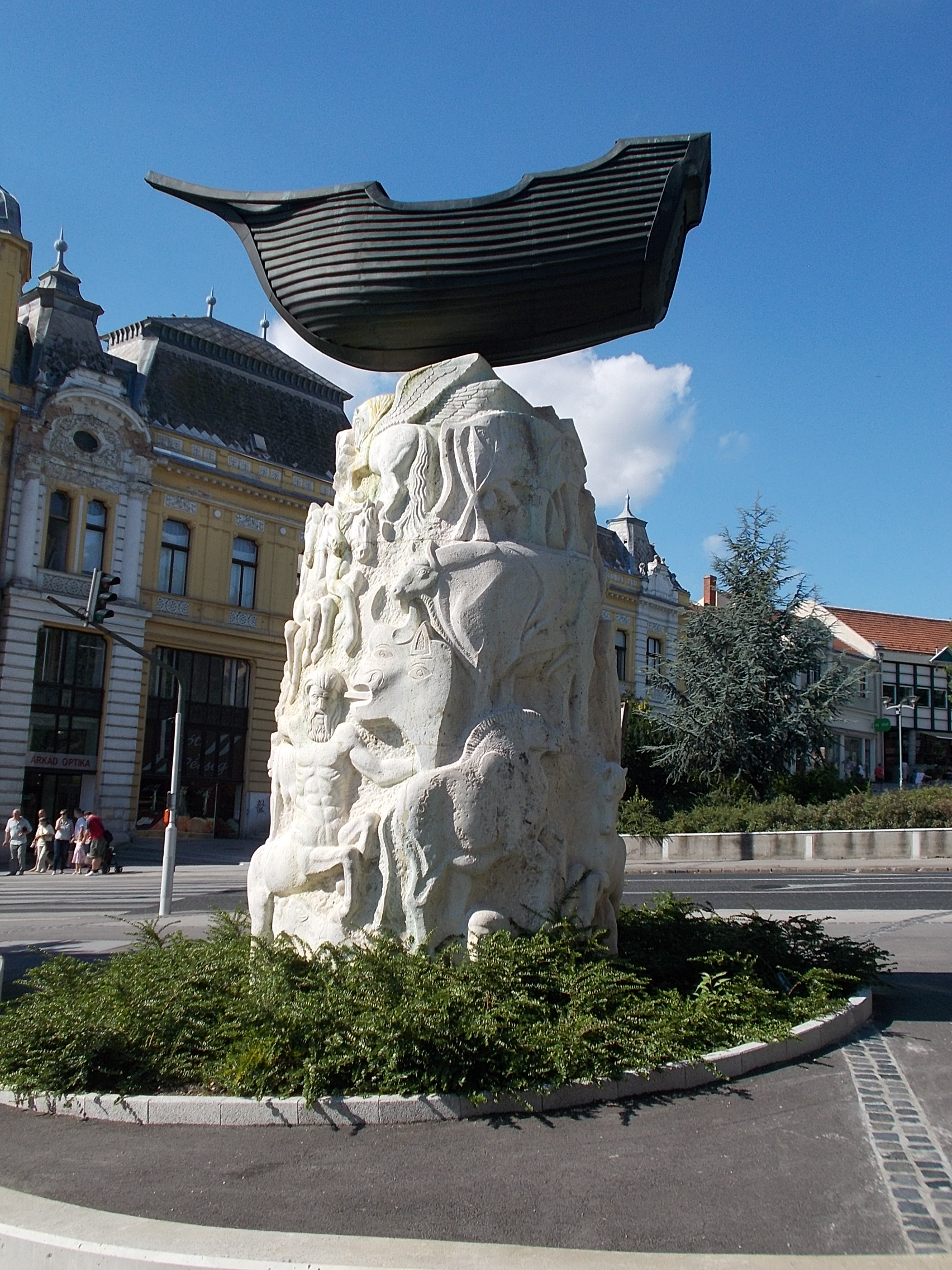 Ararat (Noah's Ark) monument by Benő Pogány Gábor in 1997. - Belváros, Veszprém, Veszprém County, Hungary.